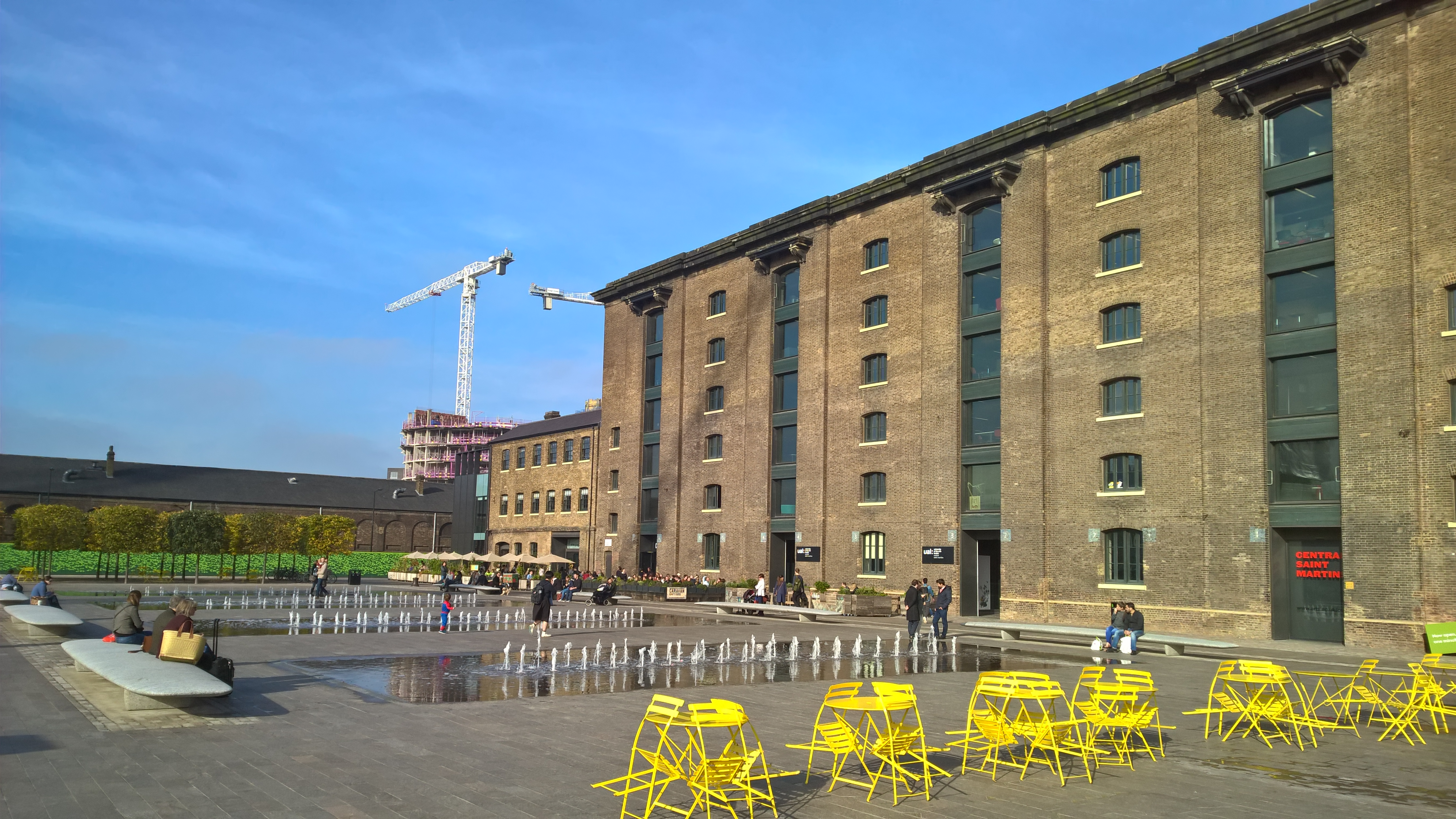 Part of the former Great Northern Goods Yard, designed by Lewis Cubitt, undergoing redevelopment in 2015